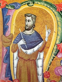 Frederick II, Holy Roman Emperor